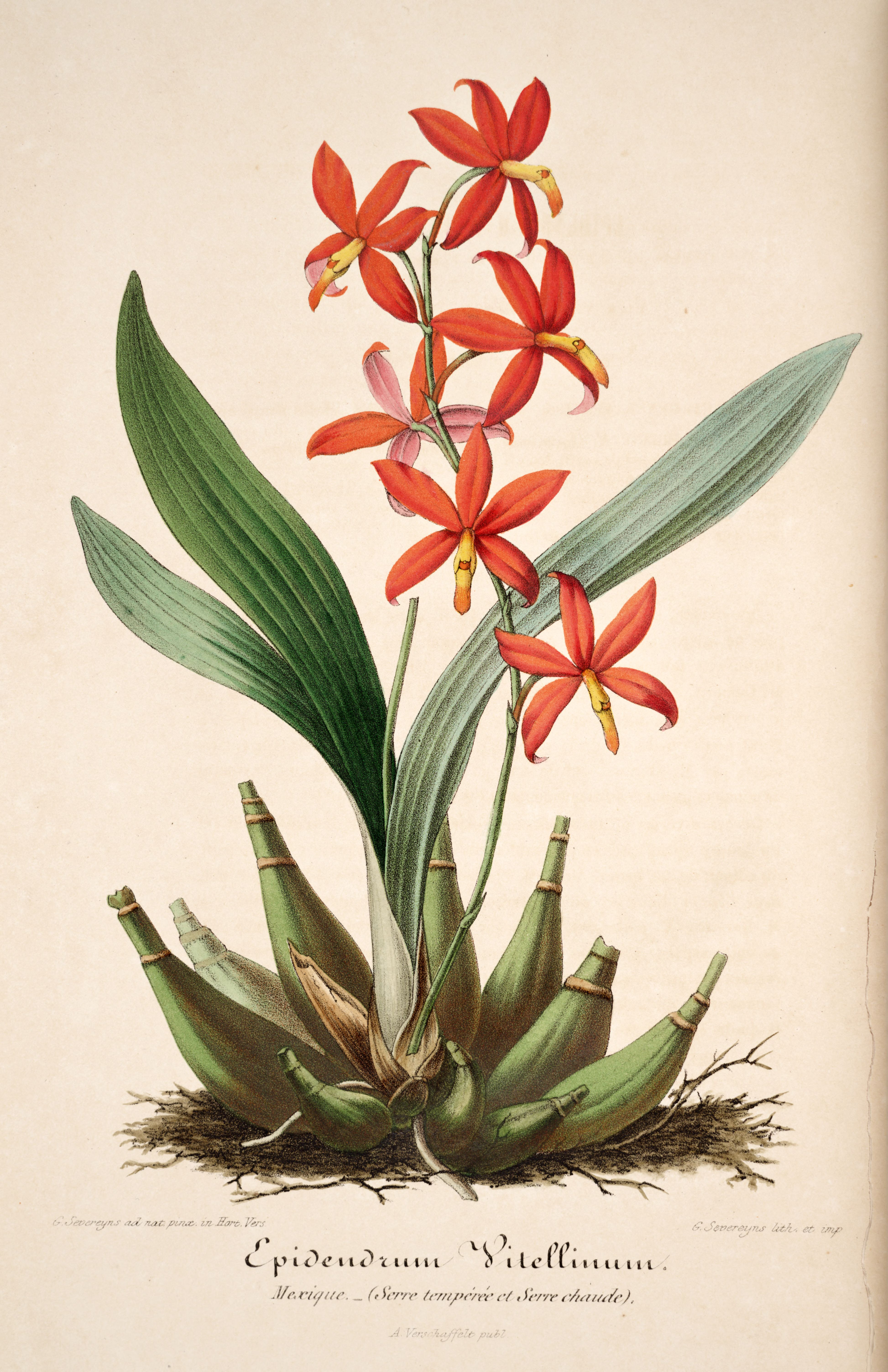 Prosthechea vitellina (as syn. Epidendrum vitellinum)